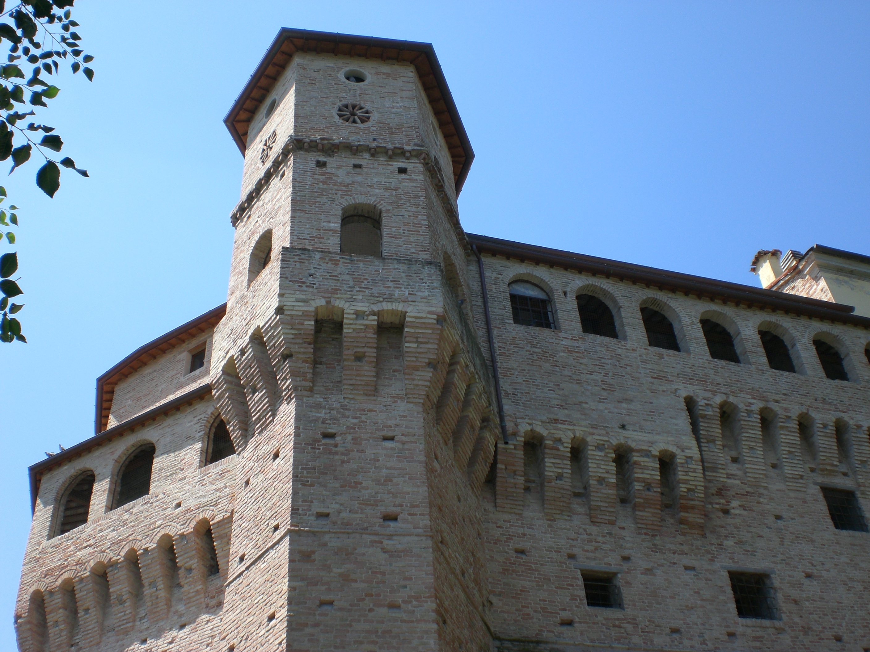 Jesi, Town Walls, Montirozzo